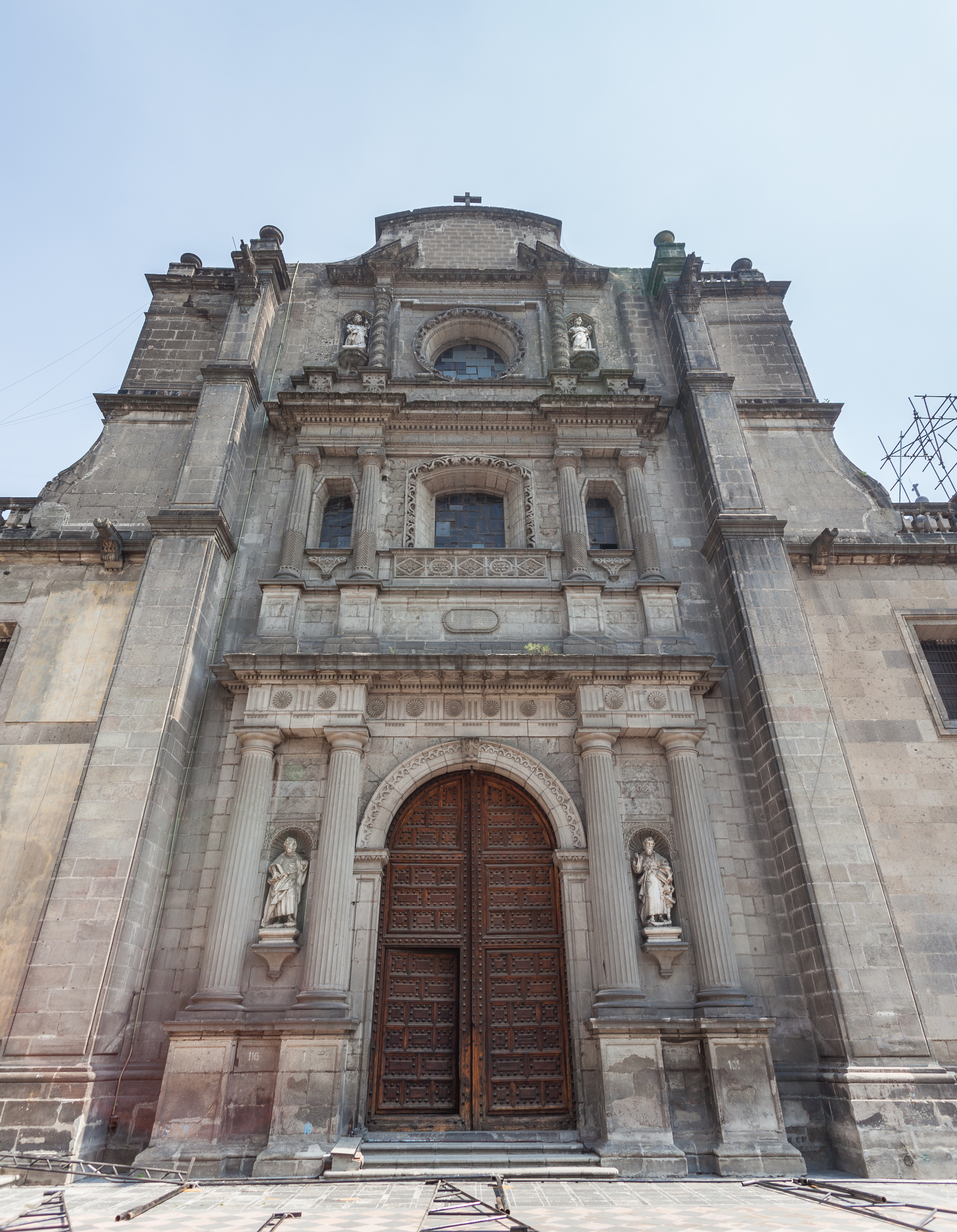 Metropolitan Cathedral, Mexico City, México